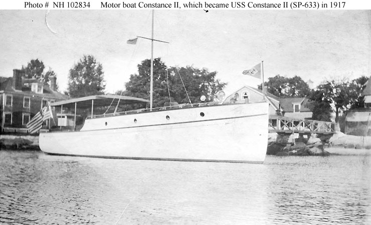 The motorboat Constance II prior to her United States Navy service as the patrol vessel , later .